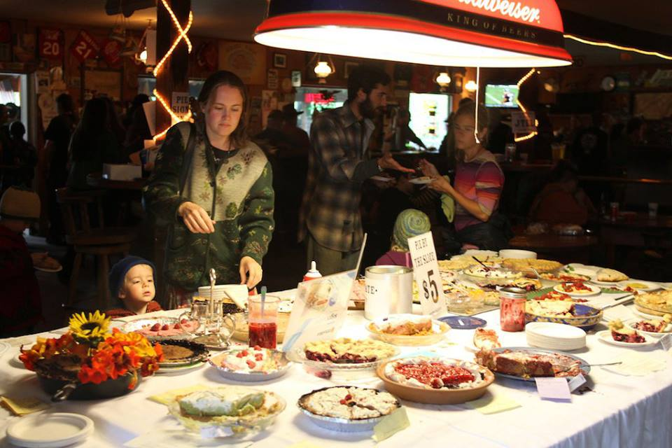 The small Alaskan community of Ester hosts an annual pie contest to raise funds for the community library. All pies must be made from berries, and can be sweet or savory or something in between.